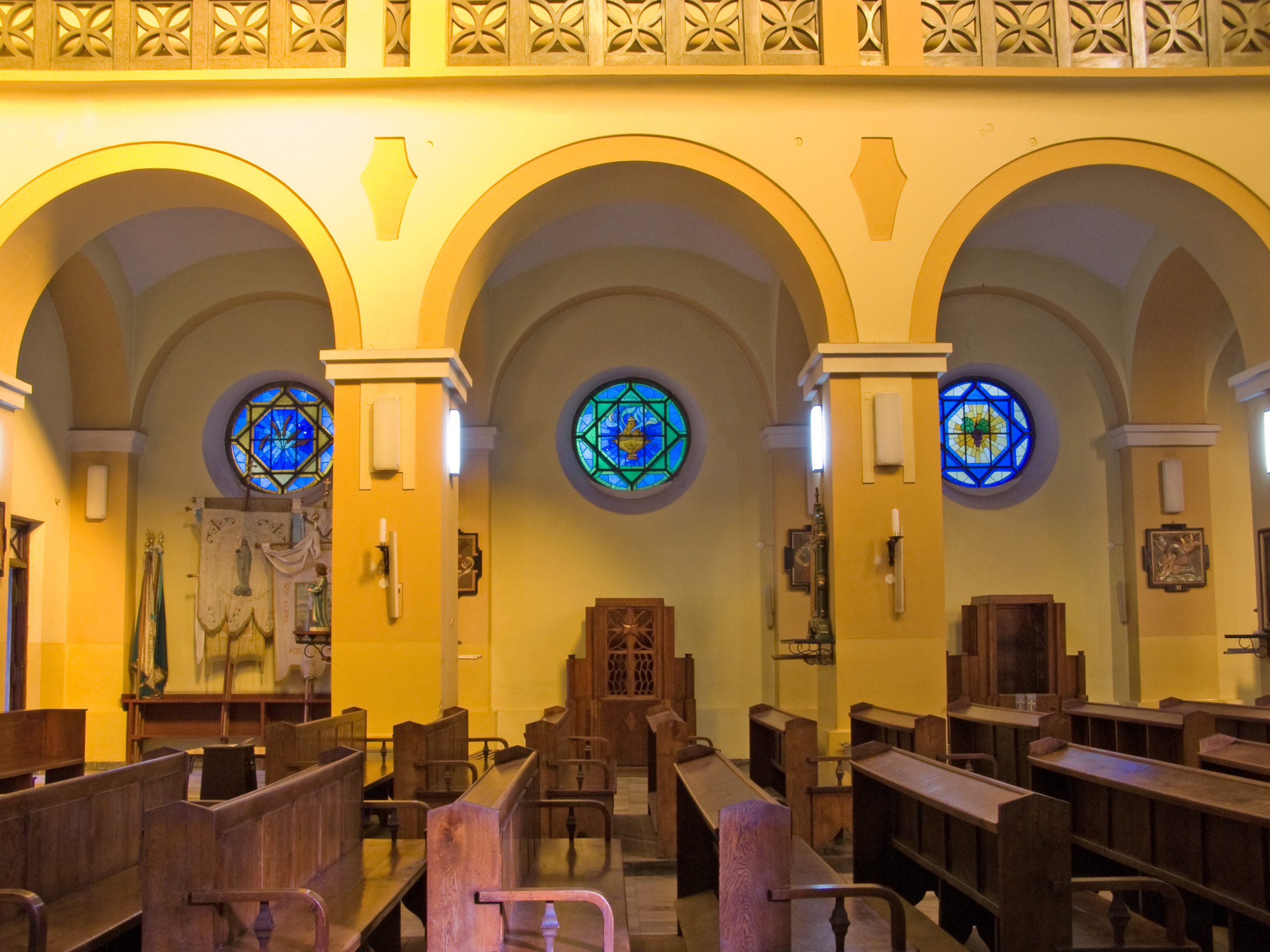 Stained-glass windows in the circular nave church of St. side. Michael the Archangel at Bronowice in Lublin.